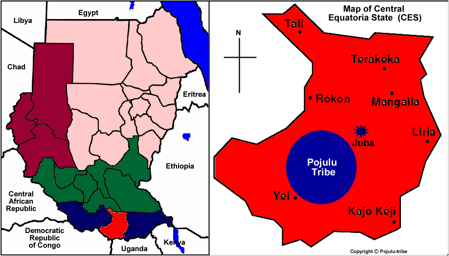 The primary location of the Polulu tribe in Central Equatoria State of the Equatoria region of southern South Sudan. Map showing former Southern Sudan, without post-2011 South Sudan political boundaries.